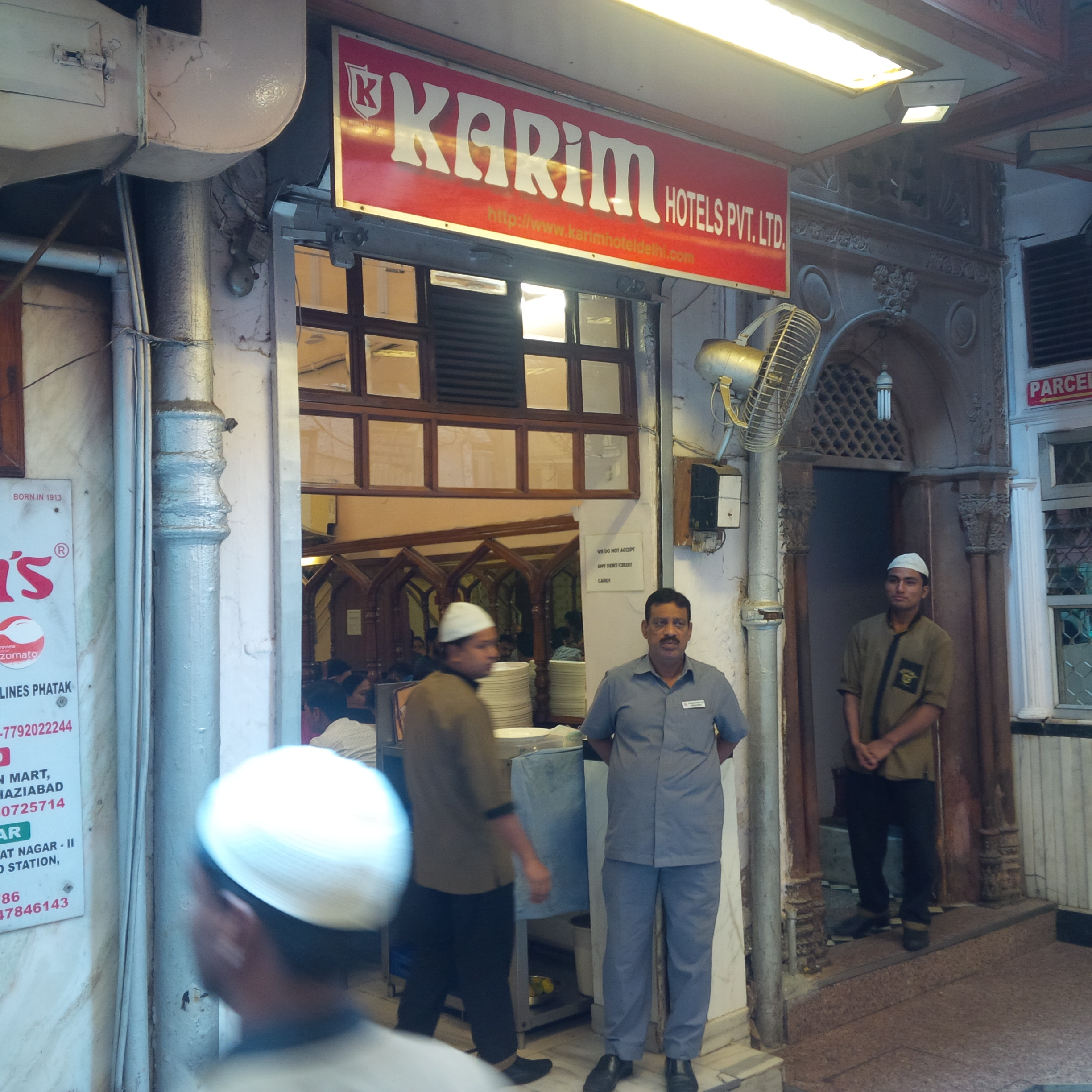 Karim's Hotel in Old Delhi.